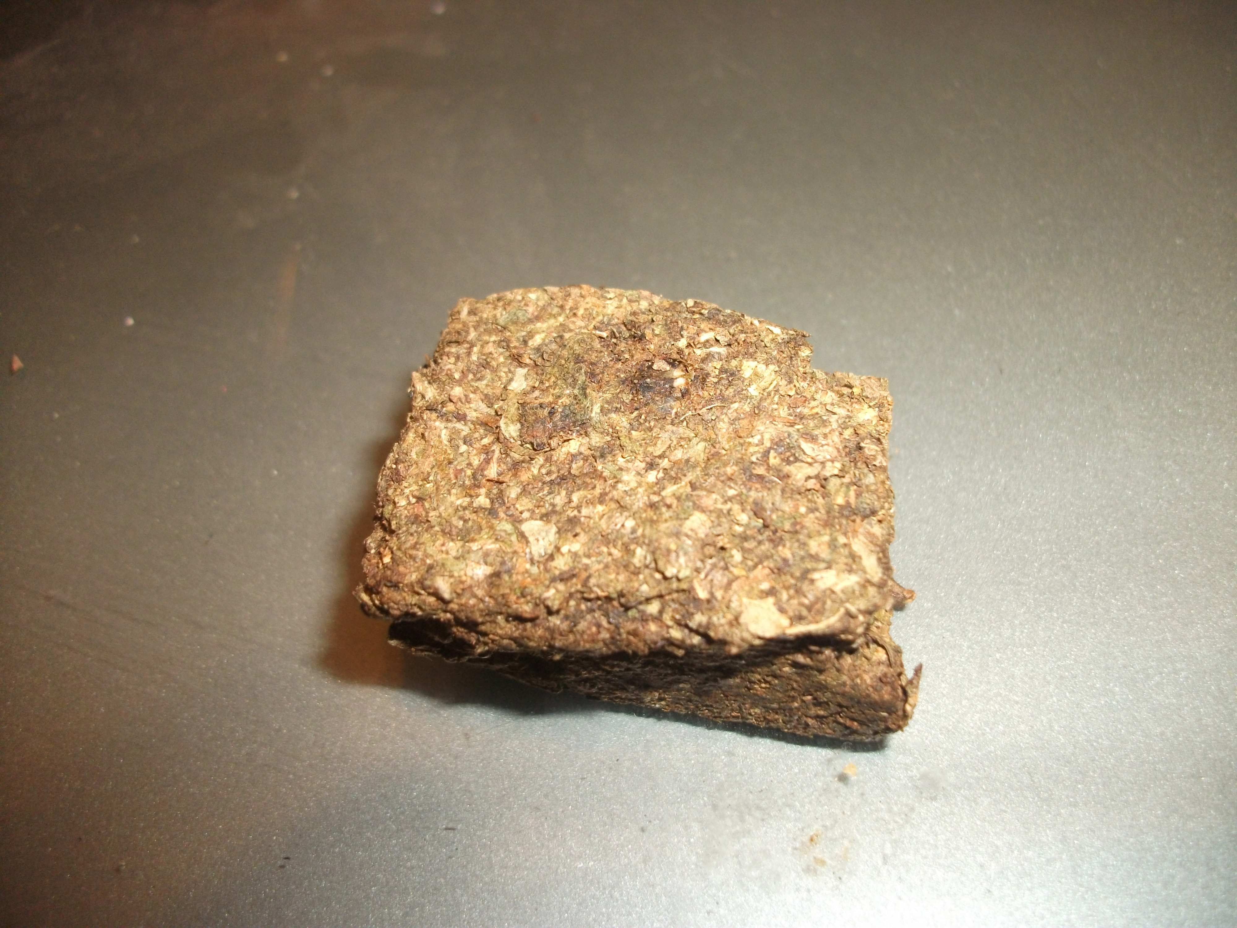 piedra de 25 pero que ni en pedo pesa 25